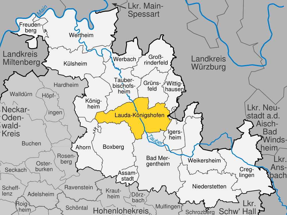 Position of Lauda-Königshofen within the Main-Tauber-Kreis, Baden-Württemberg, Germany